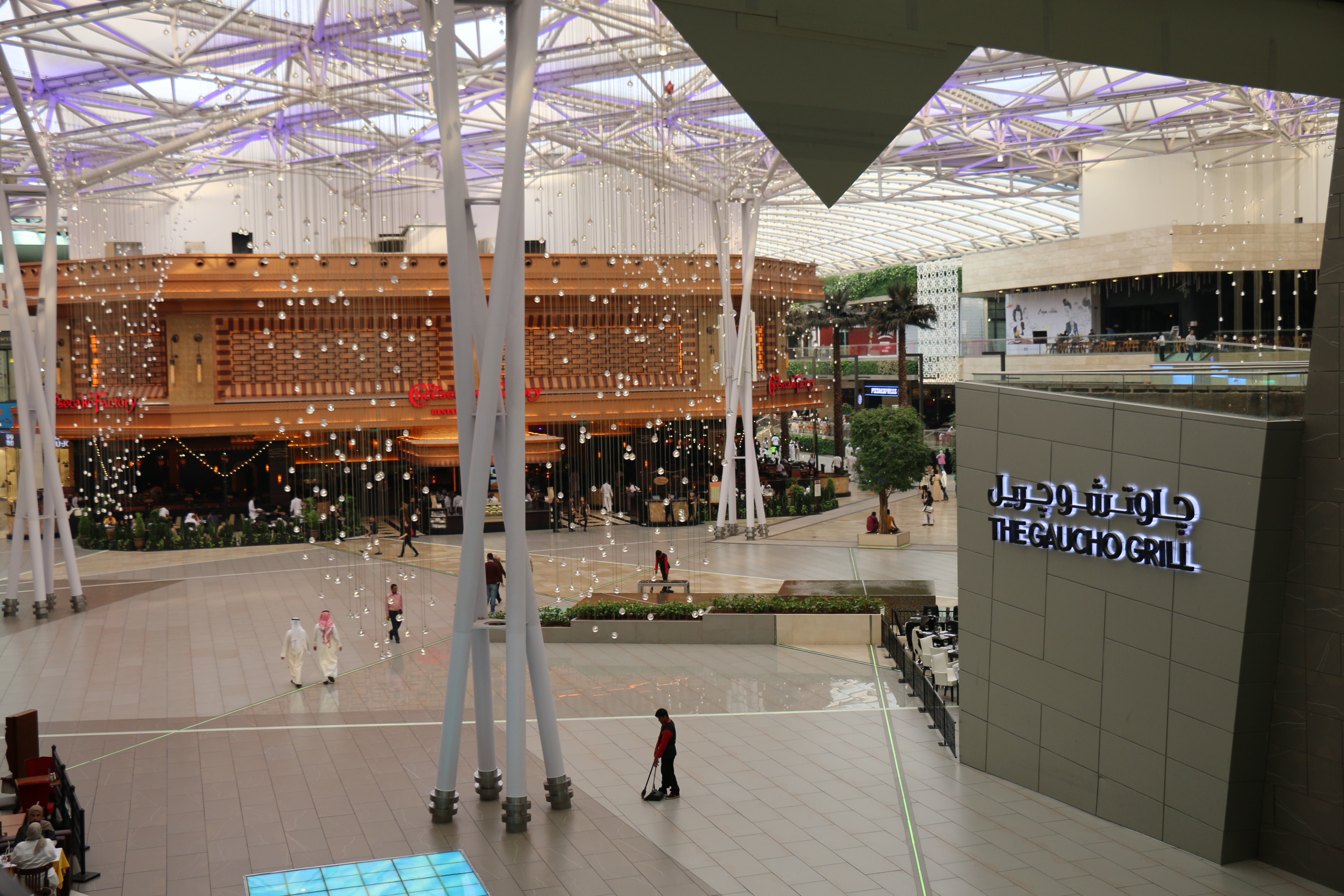 A morning view of the famous Avenues mall in Kuwait City, this particular location is called "Grand Avenue"